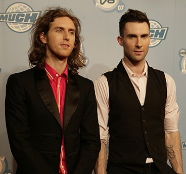 Jesse Carmichael and Adam Levine of Maroon 5 were attendees at the 2007 MuchMusic Video Awards, held the night of Sunday, June 17, 2007 in Toronto, Ontario, Canada.